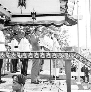 Sarawak first chief minister Tan Sri Datuk Amar Stephen Kalong Ningkan declaring the forming of the Federation of Malaysia on 16 September 1963.